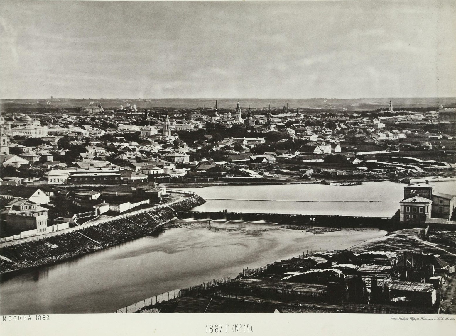 Babegorodskaya dam in Moscow